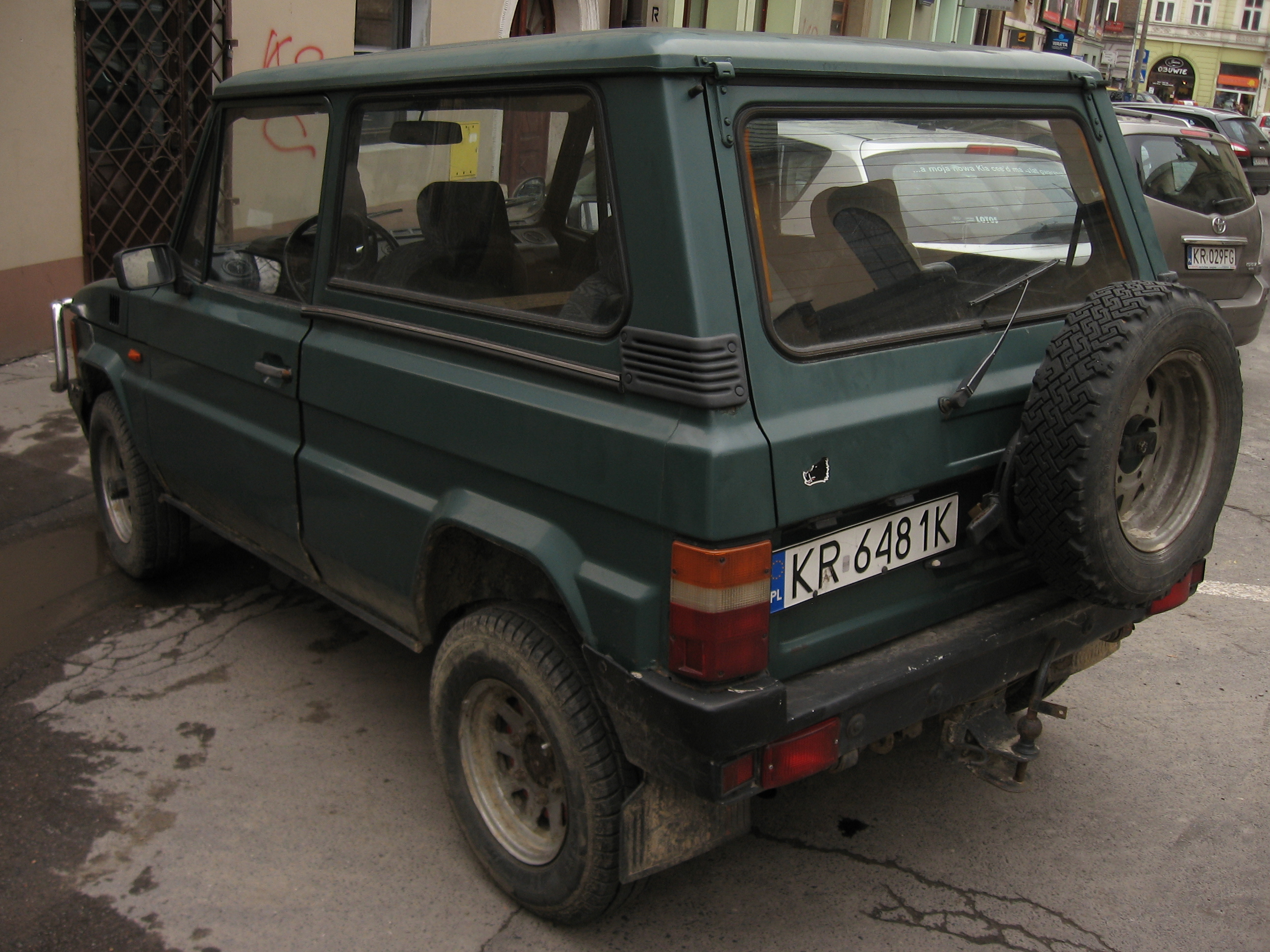 Aro 10 on Garbarska street in Kraków, Poland.